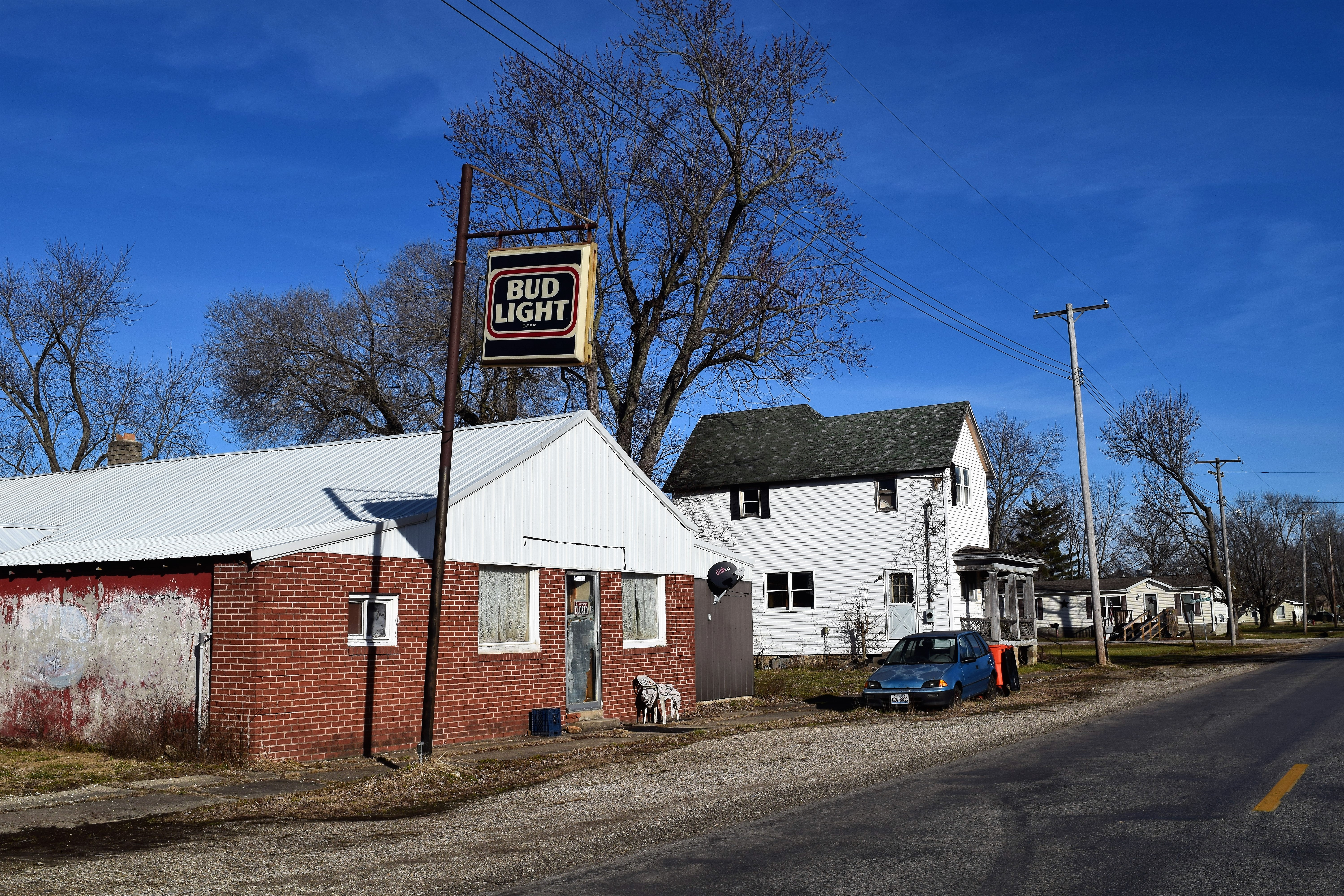 A bar and a house on the main street in Birds, Illinois.